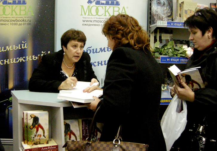 The author Dina Runiba in Moscow, October 2010